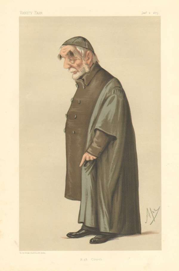 Men of the Day No.95: Caricature of The Rev EB Pusey DD. Caption reads: "High Church"